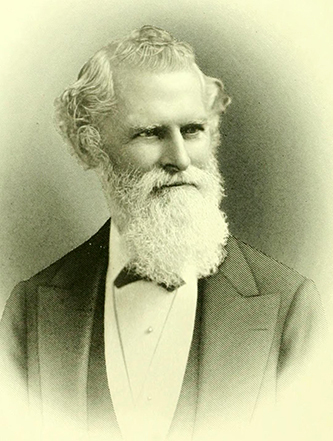 George W. Rains in later years, from Genealogical and family history of southern New York and the Hudson River Valley: a record of the achievements of her people in the making of a commonwealth and the building of a nation, by Reynolds, Cuyler (1866-1934). Publication date: 1914.